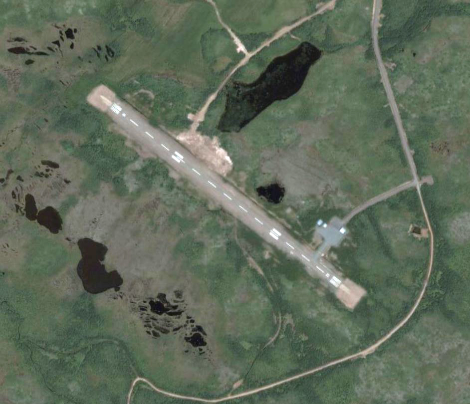 Winterland Airport